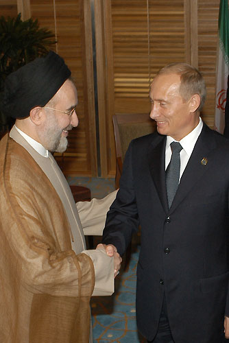 PUTRAJAYA, MALAYSIA. President Putin with Iranian President Mohammad Khatami.